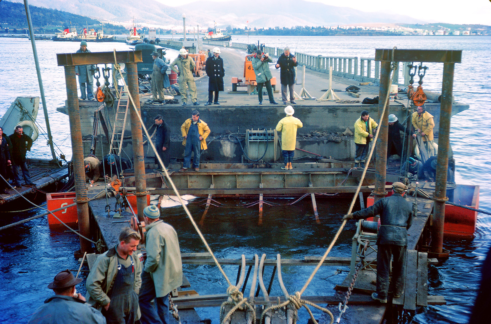 The eastern end has been detached from its shore connection.